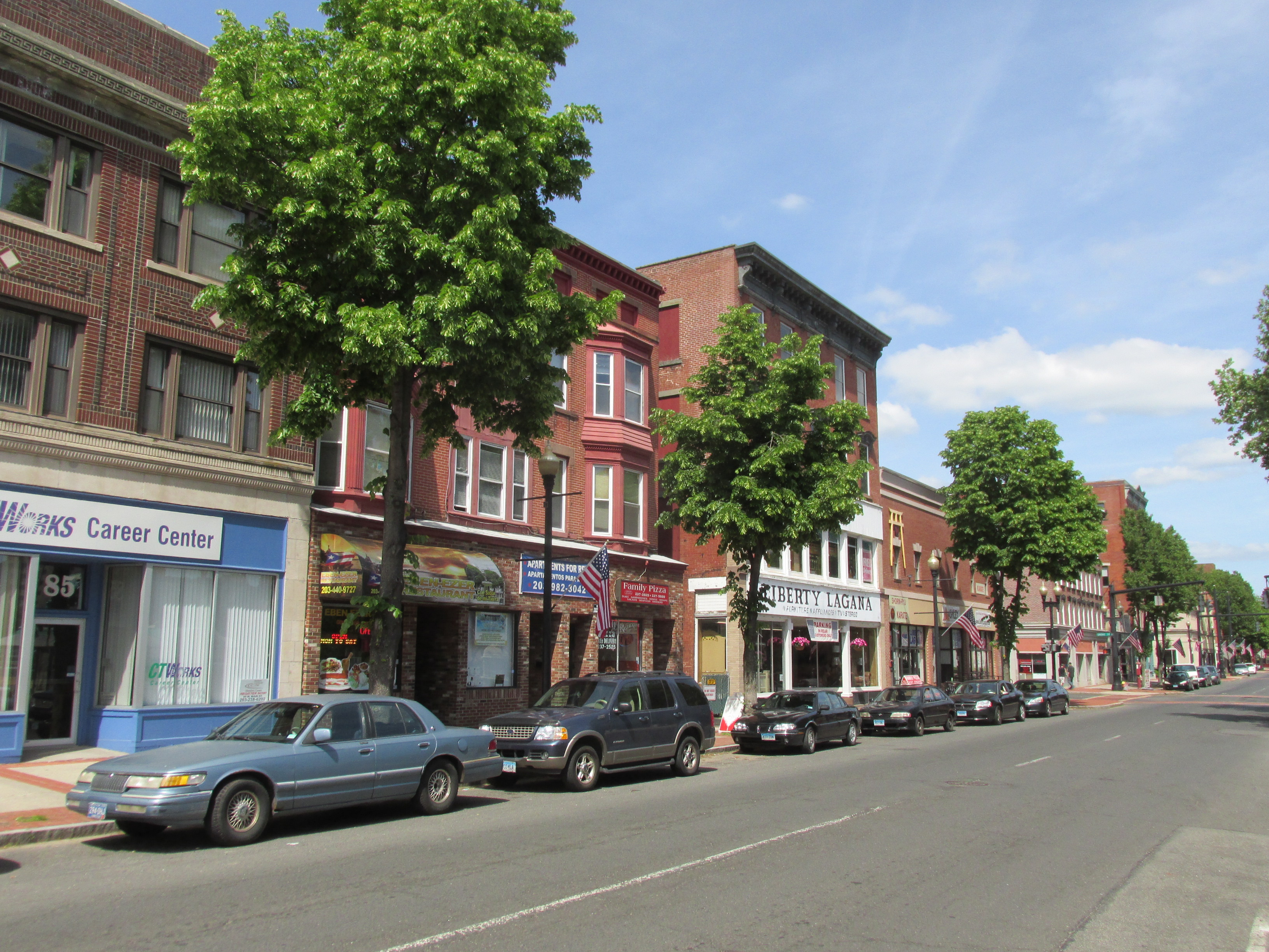 West Main Street, Meriden Connecticut - 2014